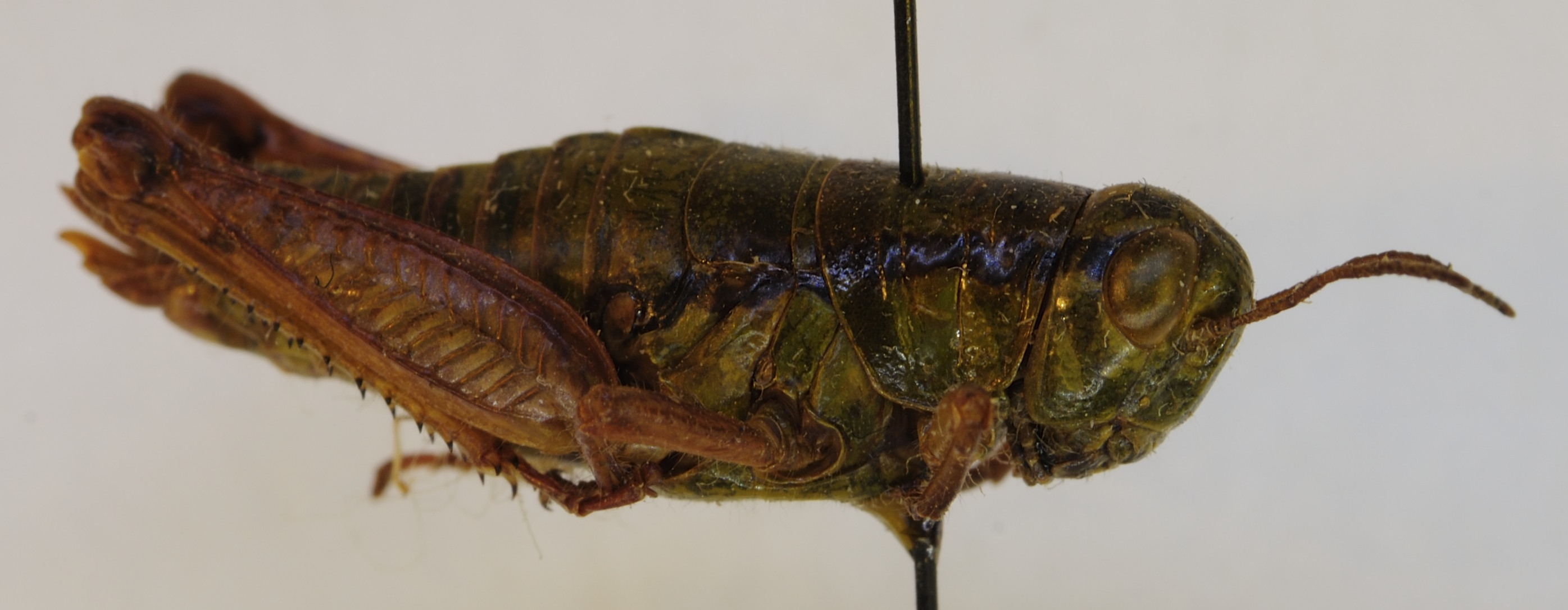 Pseudoprumna baldensis (Krauss, 1883) Fundort: I, Monte Baldo, VIII 1921; leg.: Ramme-Spaney S.G., det.: K. Harz Zoologische Staatssammlung München This picture was taken by Wikipedians in Zoologische Staatssammlung München (ZSM). The specimen belongs to the collections of ZSM.